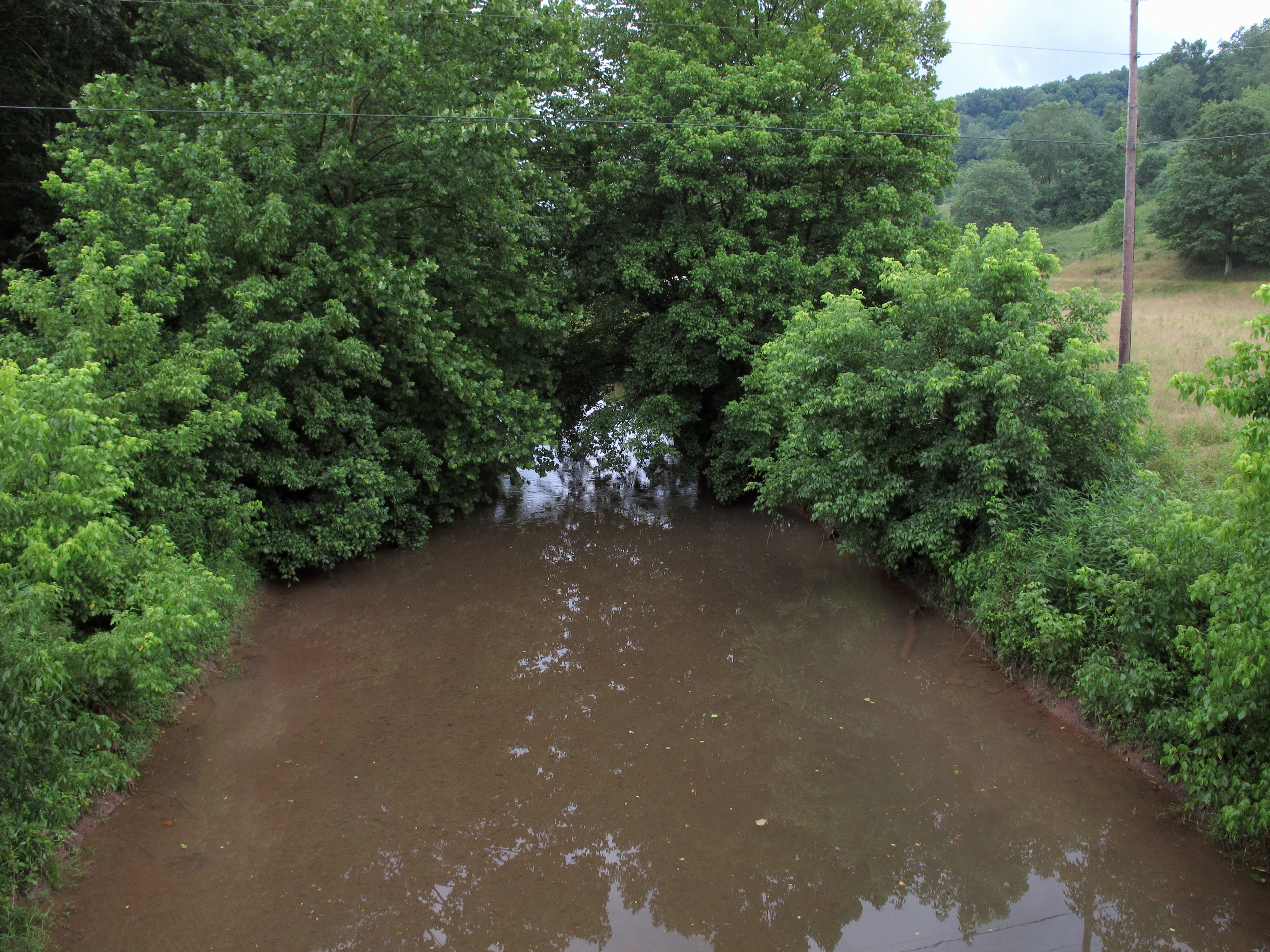 Sancho Creek as viewed upstream from Little Sancho Road (County Road 6/3) east of Locke in Tyler County, West Virginia.